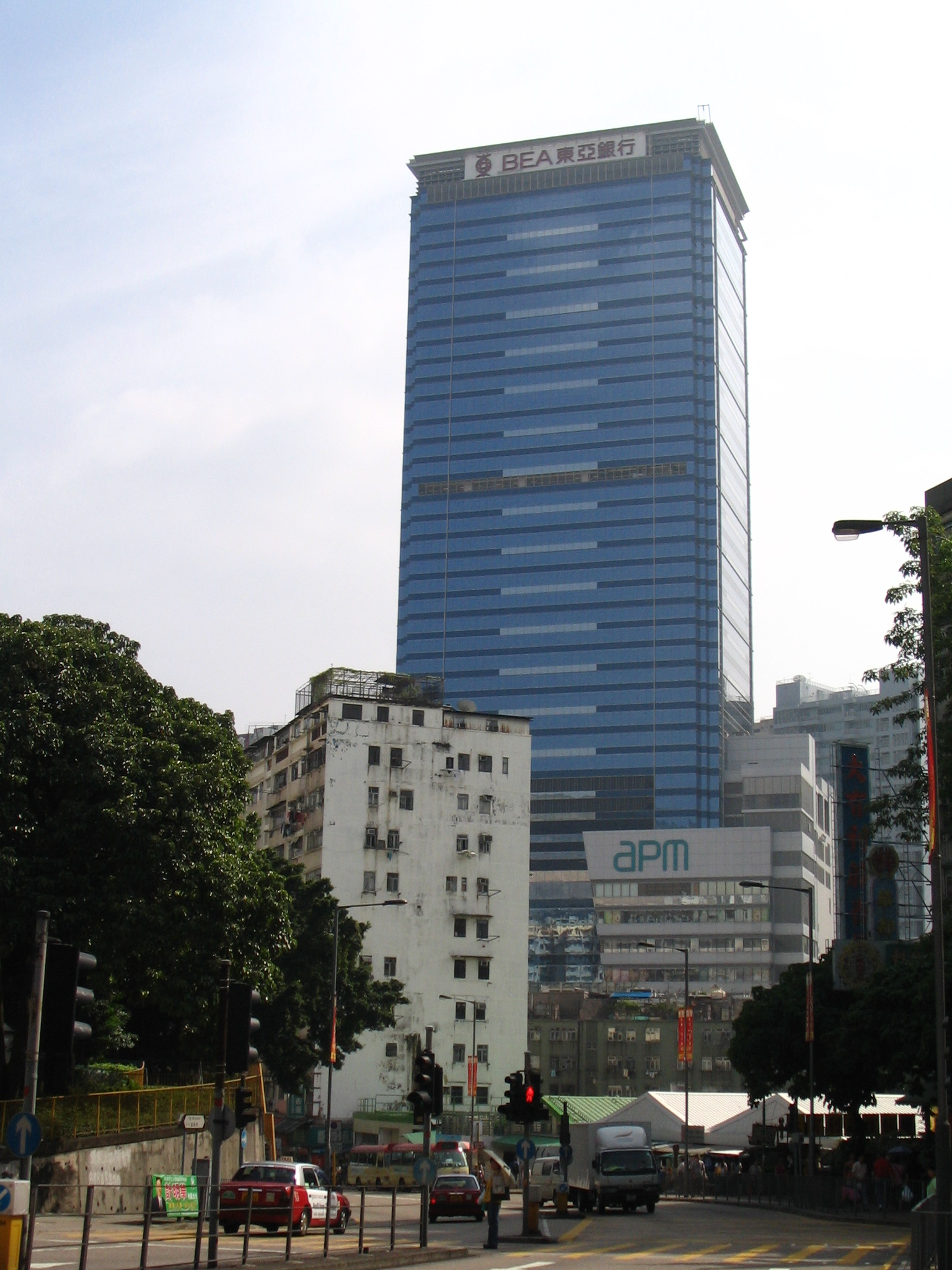 Photo of Millennium City 5